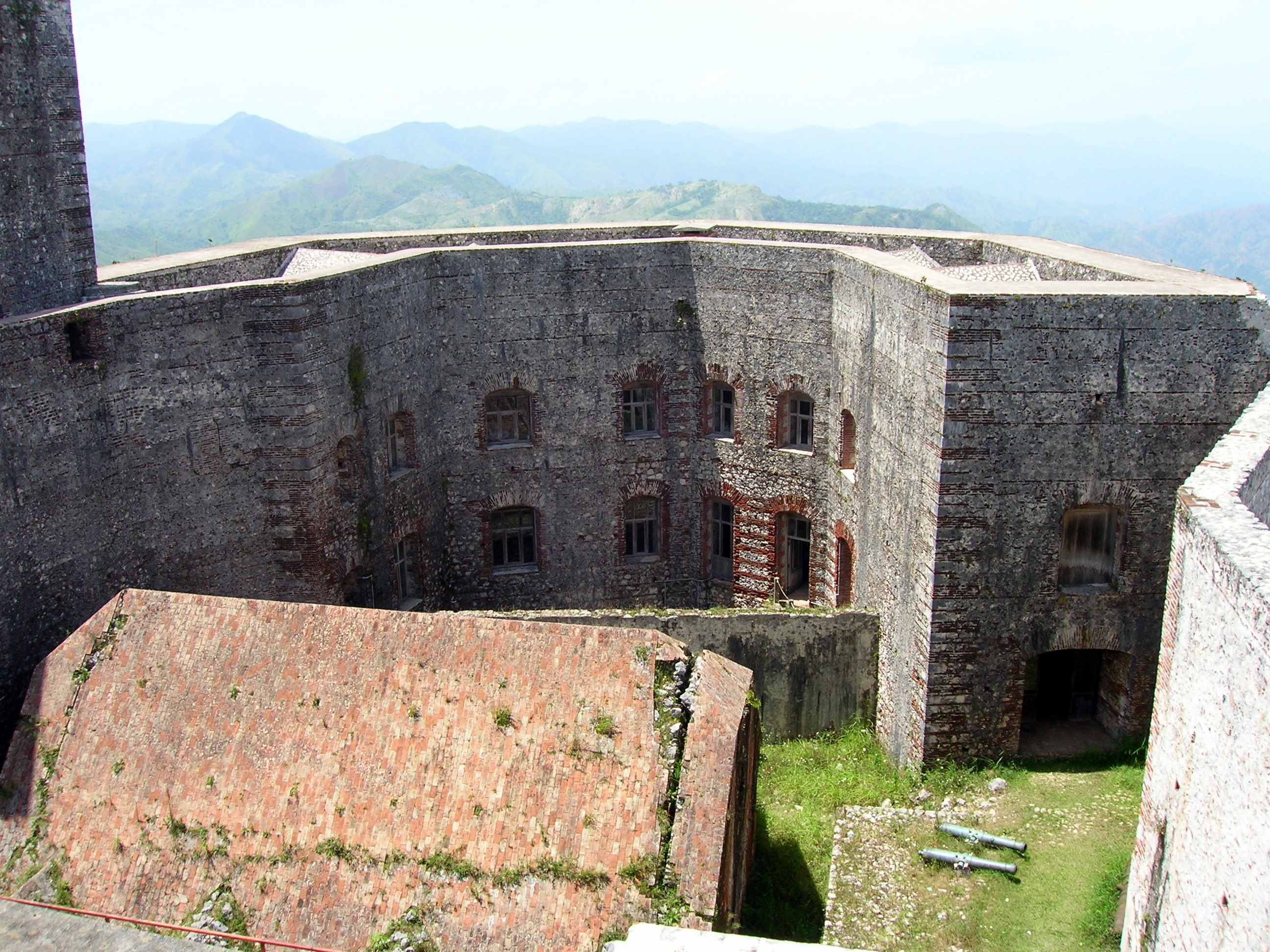 The Citadelle Laferrière, near Milot in Haiti.